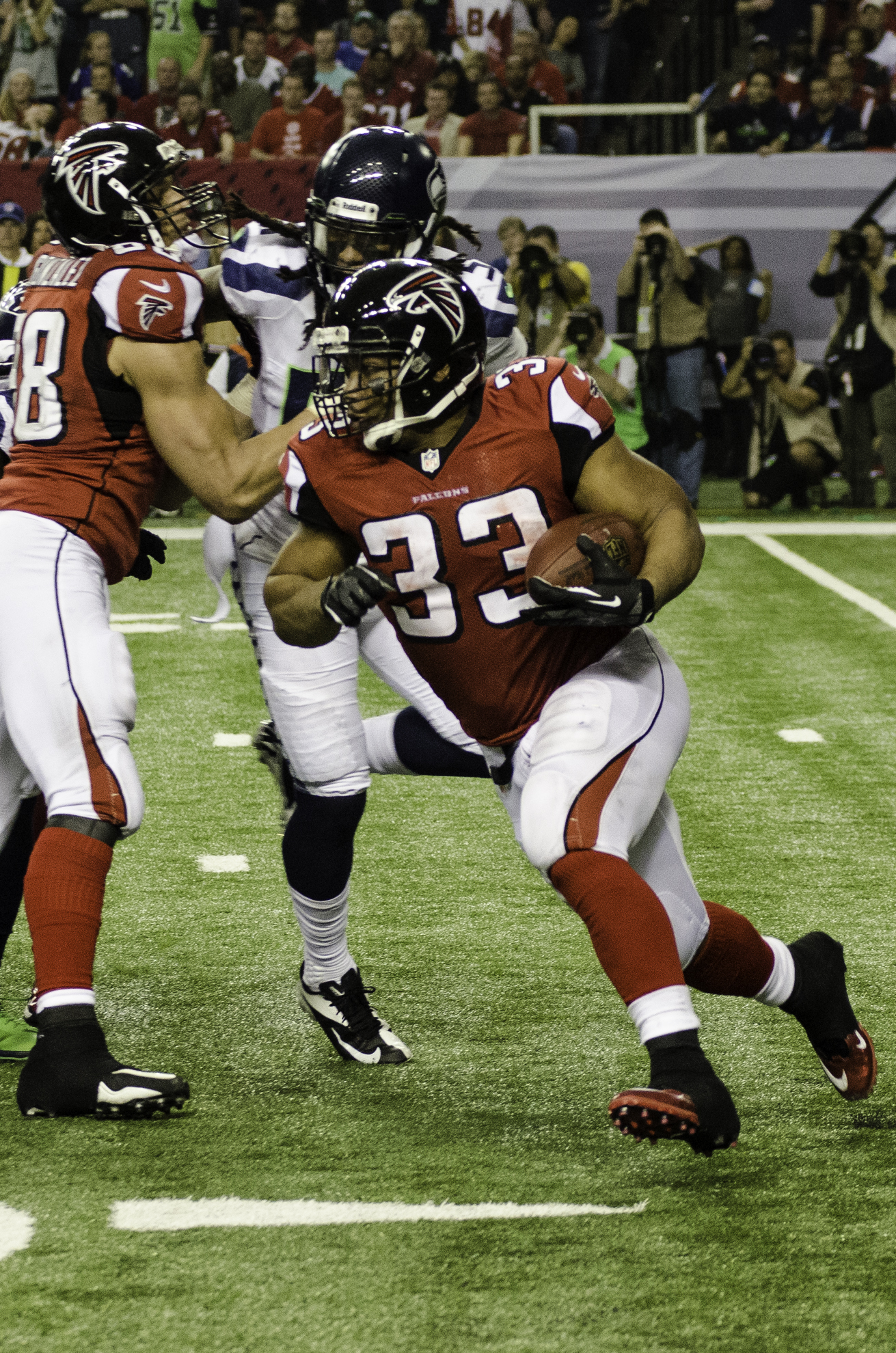 ATLANTA, Jan. 13, 2013 - Falcons running back Michael Turner ran around the left end for a nine yard gain in the fourth quarter. Turner rushed for a total of 98 yards during the game, 42 yards in the second quarter alone.